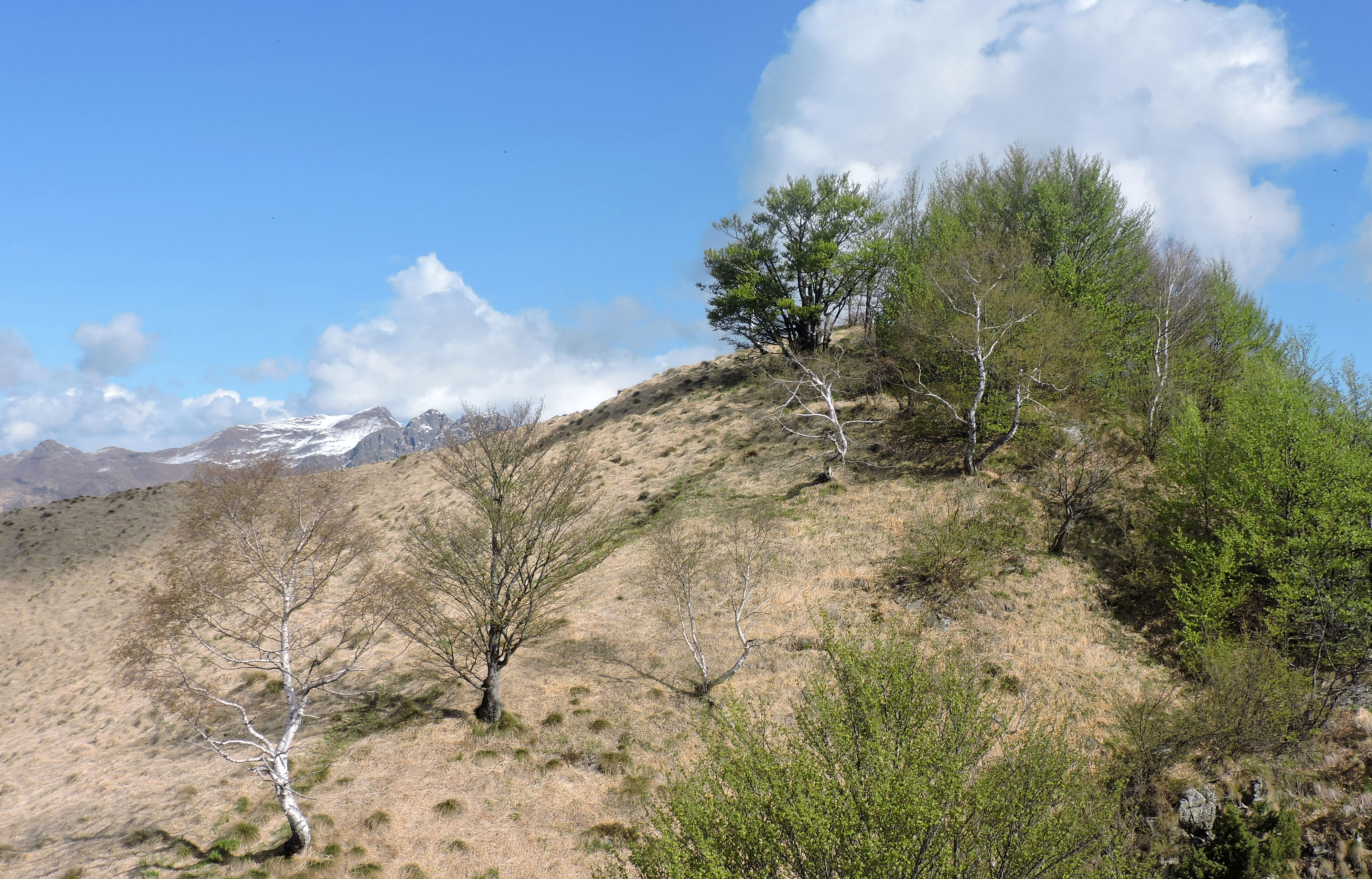 Cima del Camossaro (Alpi Cusiane, Italy), on its left the Monte Capio in the background